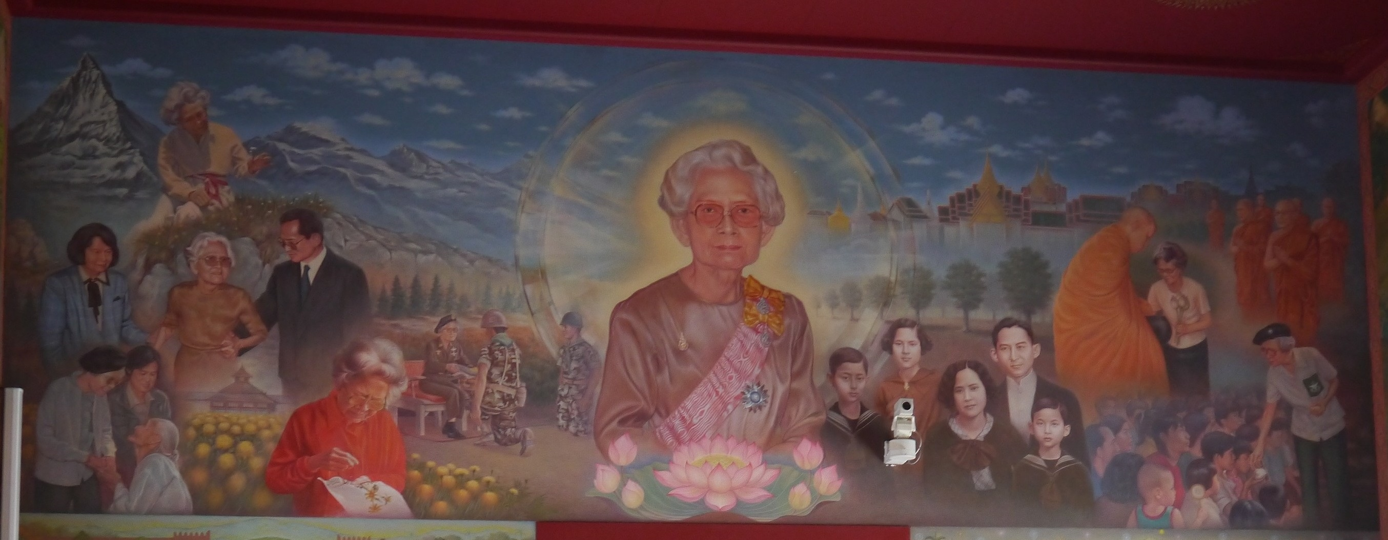 Interior of Wat Srinagarindvaram, Gretzenbach